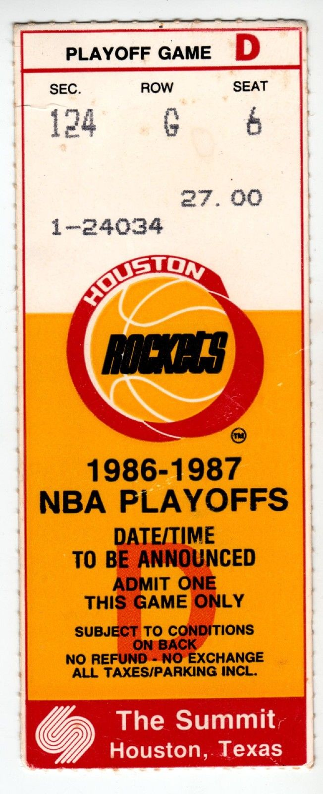 A ticket for Game 2 of the 1987 Western Conference Semifinals featuring the Seattle SuperSonics versus the Houston Rockets at The Summit on May 5, 1987. The SuperSonics defeated the Rockets 99-97 in Game 2 and eventually won the series 4-2.